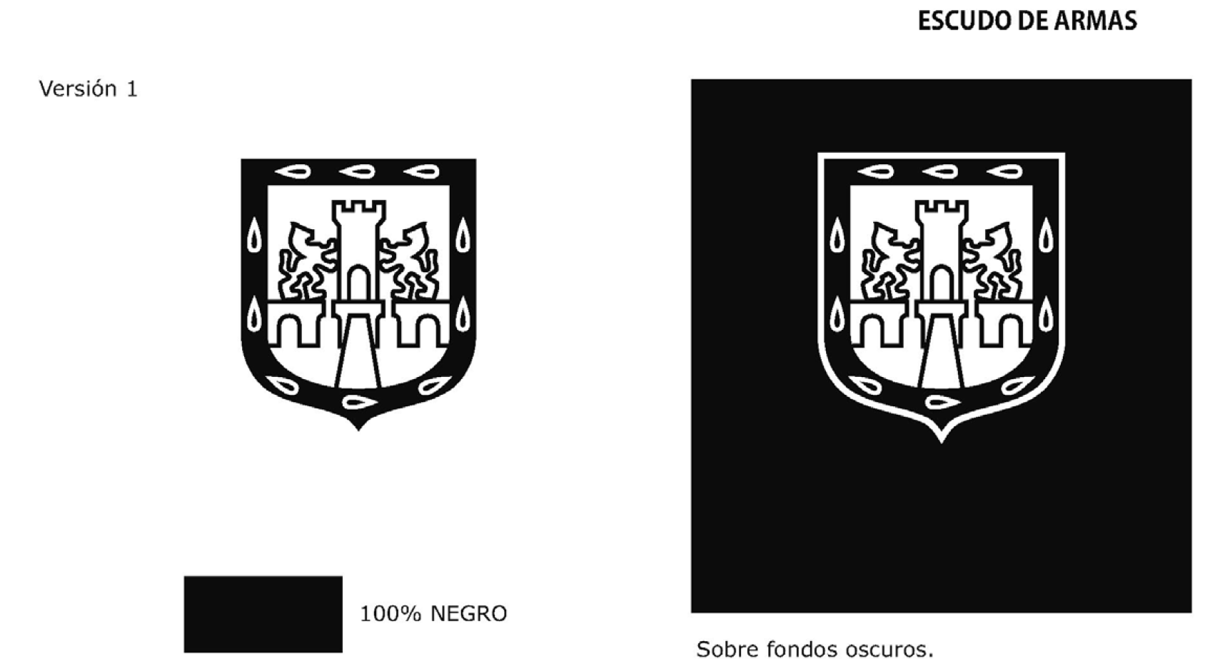 Extract from the Graphic Identity Manual of the Federal District Government, pag. 18 20FEDERAL/Manuales/DFMAN72-A.pdf